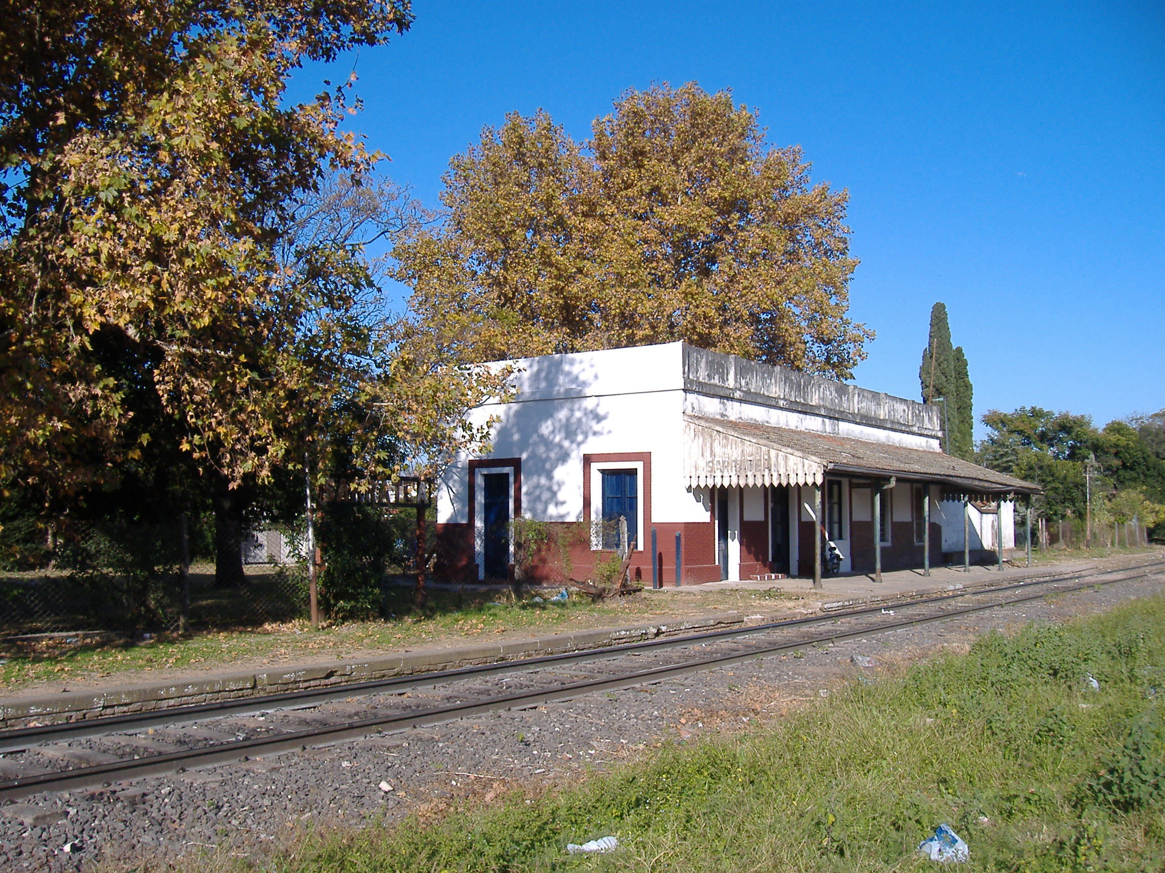 Sarratea Station, a former train station in the west of Rosario, Argentina.